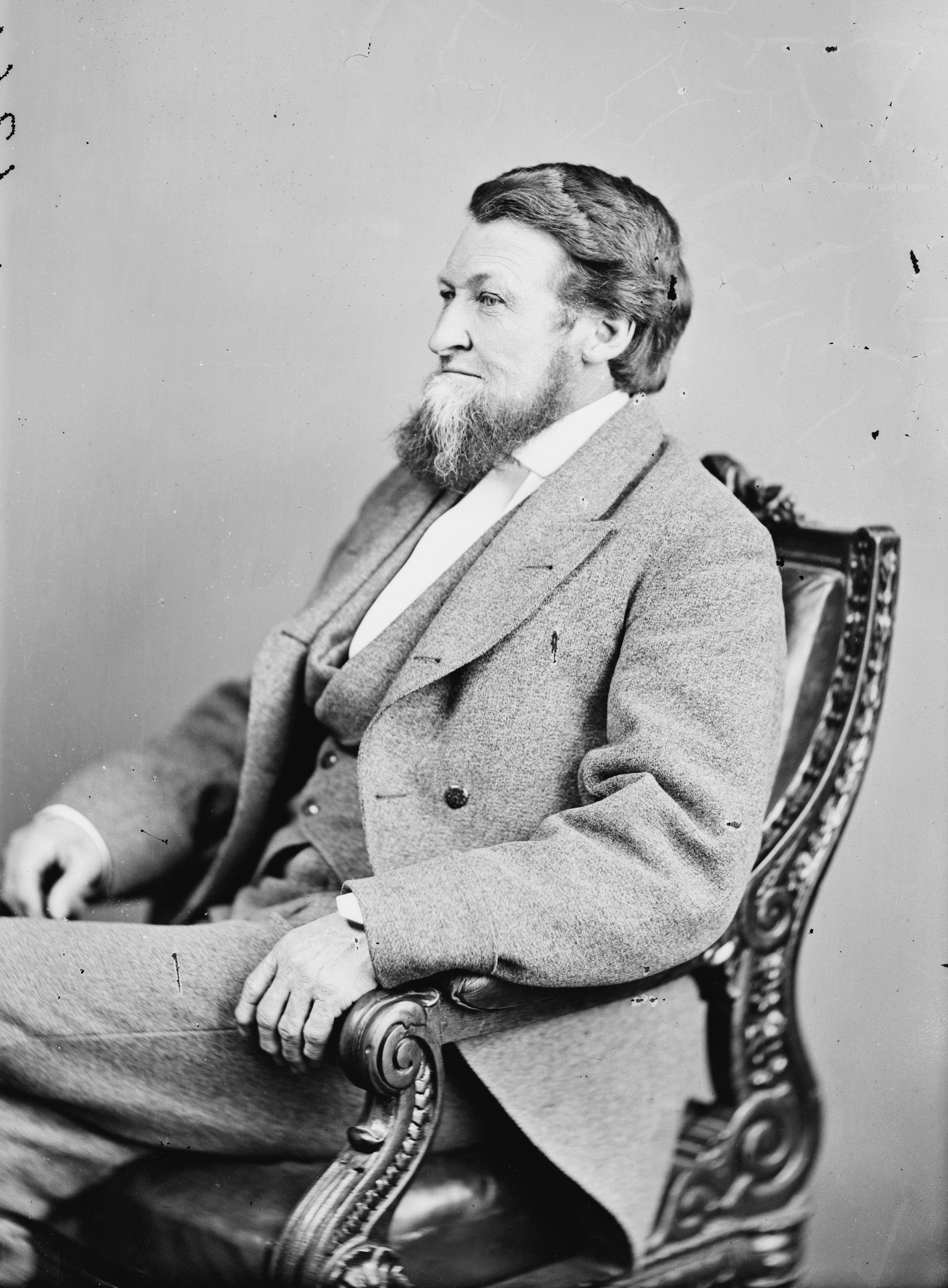 William Crutchfield. Library of Congress description: "Crutchfield, Hon. Wm. of Tenn., served in Union Army"